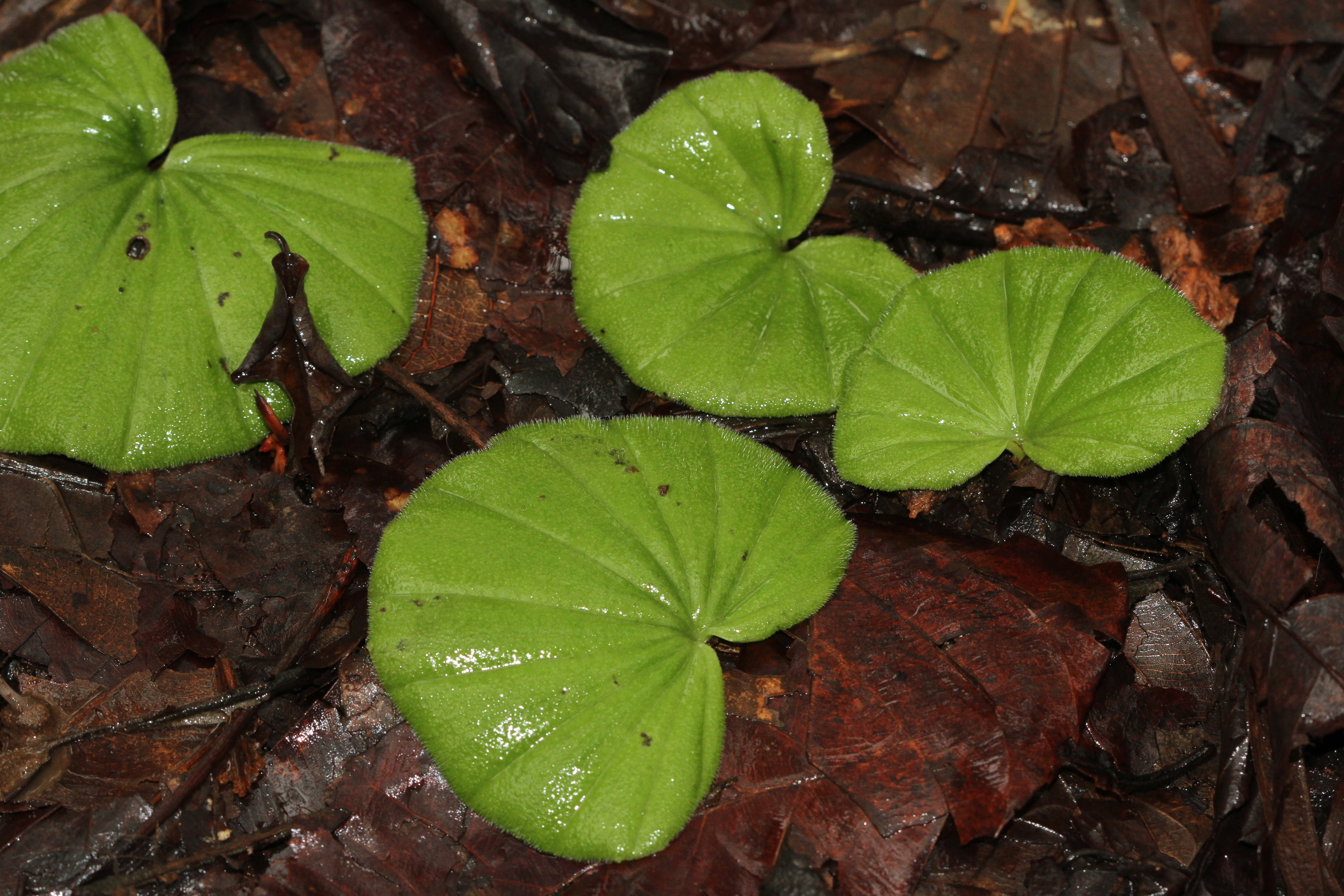 wild flowers_central india